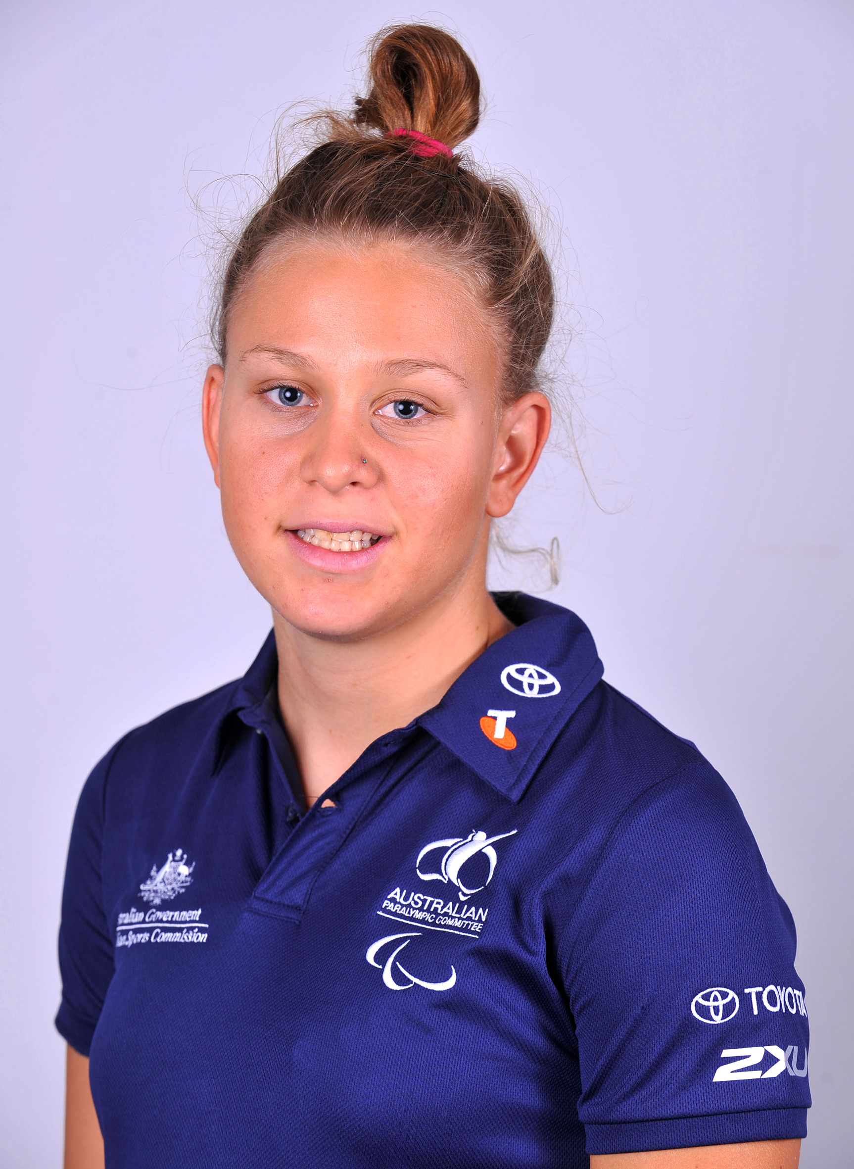 Portrait of Australian swimmer Kayla Clarke, 2012 Australian Paralympic (shadow) Team athlete